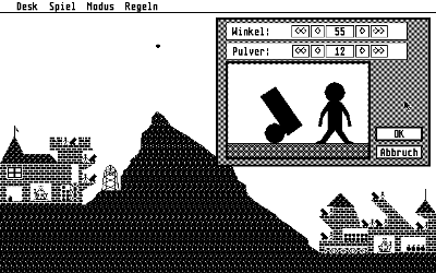 Screenshot of Ballerburg for Atari ST, programmed by Eckhard Kruse